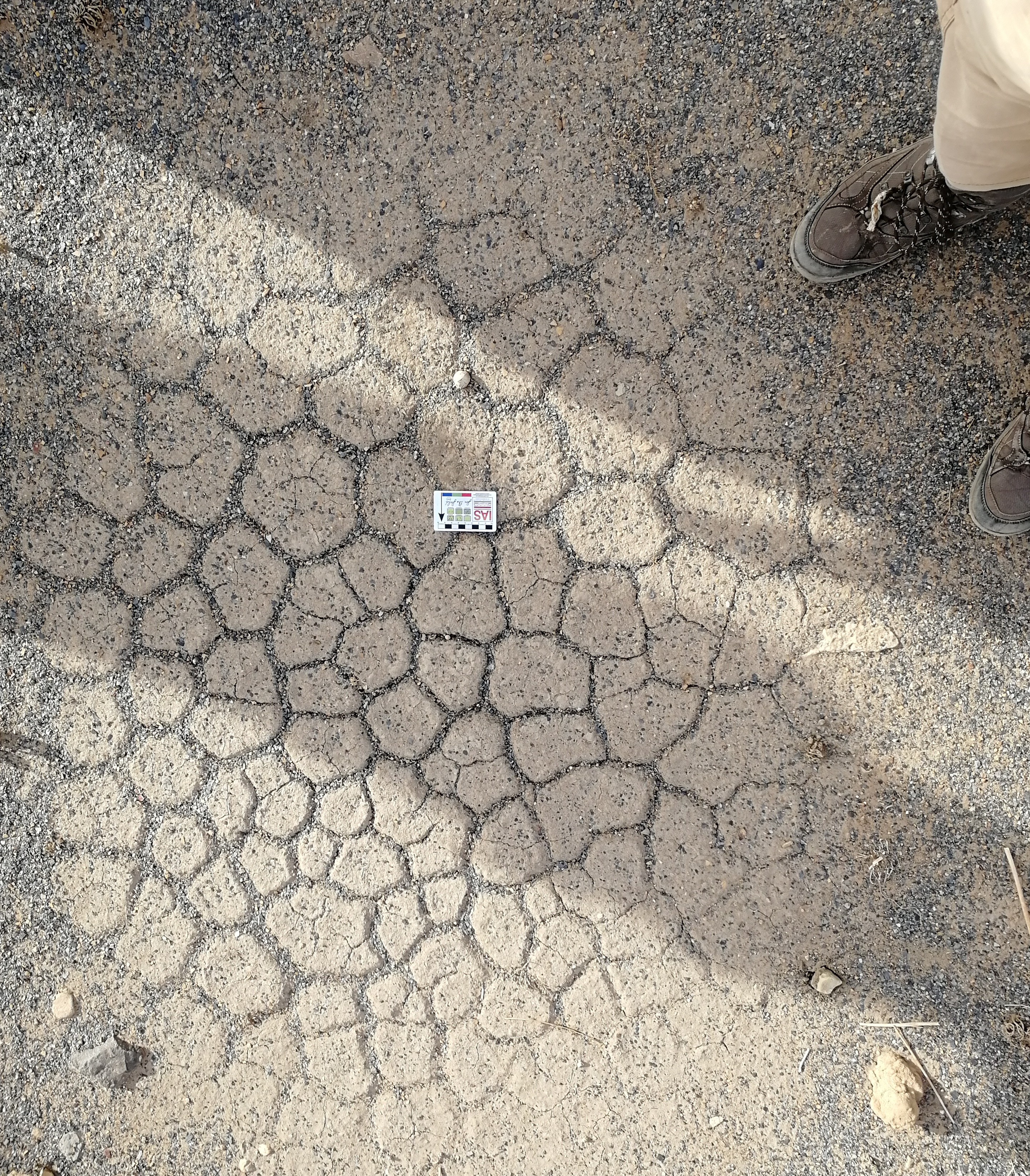 mudcracks